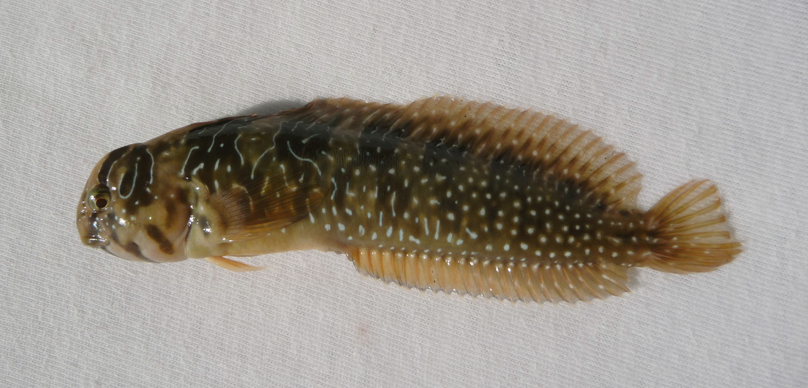 Salaria pavo (Risso, 1810). Peacock blenny female. This funny predatory fish was caught in the Black sea. Wet matter was used as a background to prevent damage to its skin. After very short photosession the fish was released back to the sea. This fish is able to change colour, like a chameleon. Geogoding of the location at which it was caught and photographed are the same.